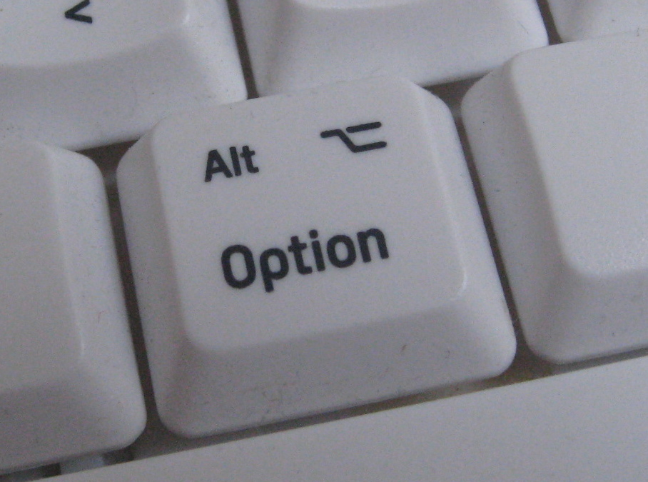 Option key on a third-party keyboard (Logitech) designed for use with Apple computers.